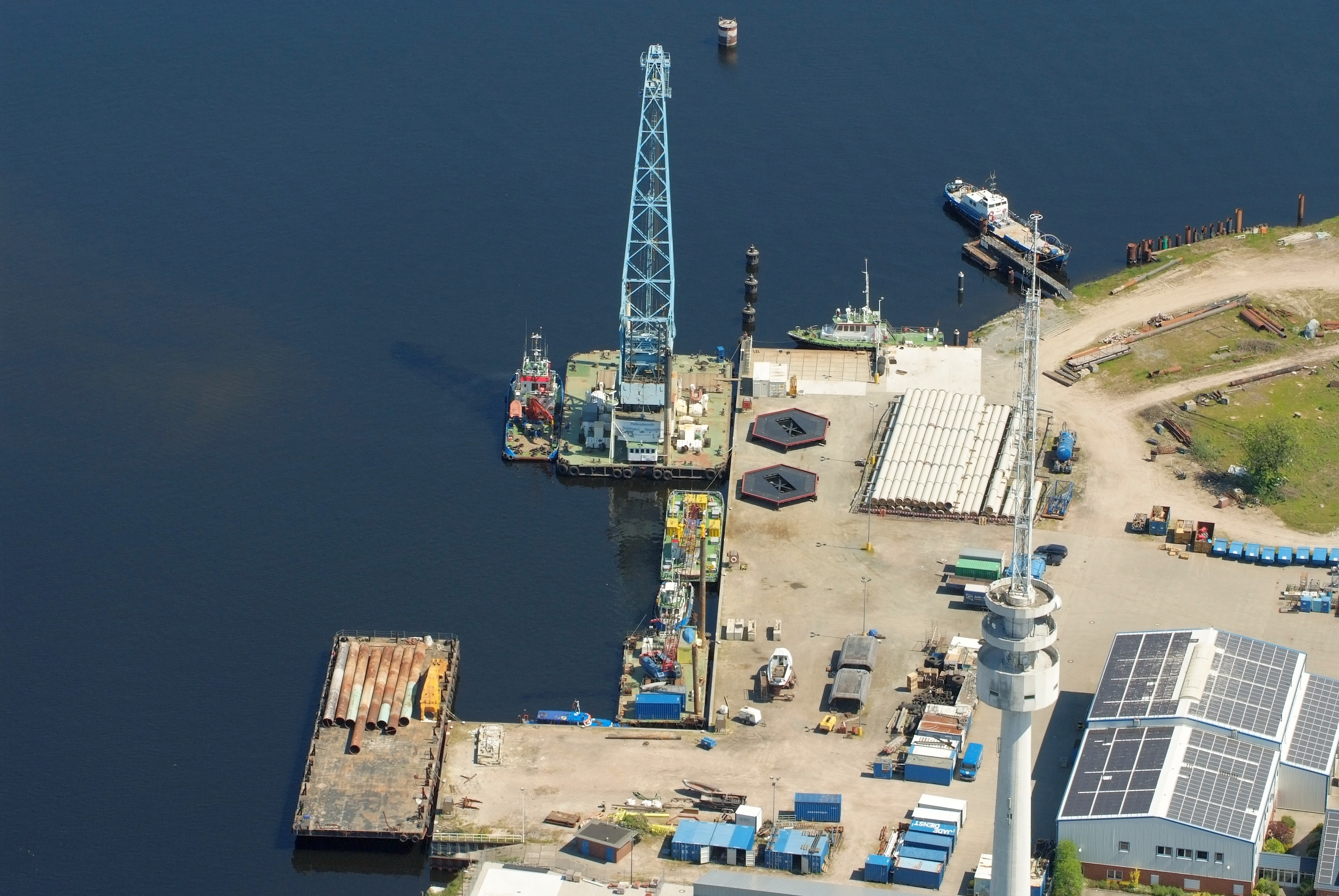 Floating crane Jade Lift I alongside Jade-Dienst wharf in Wilhelmshaven